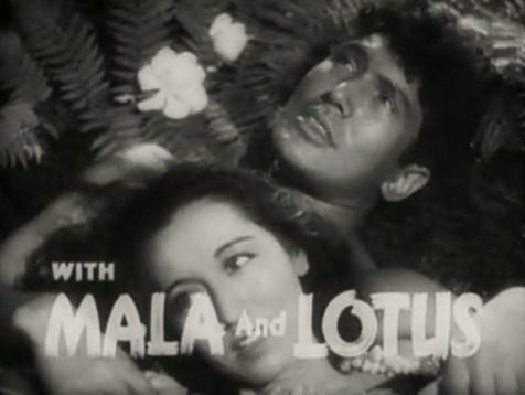 Ray Mala & Lotus Long in Last of the Pagans - trailer (cropped screenshot)